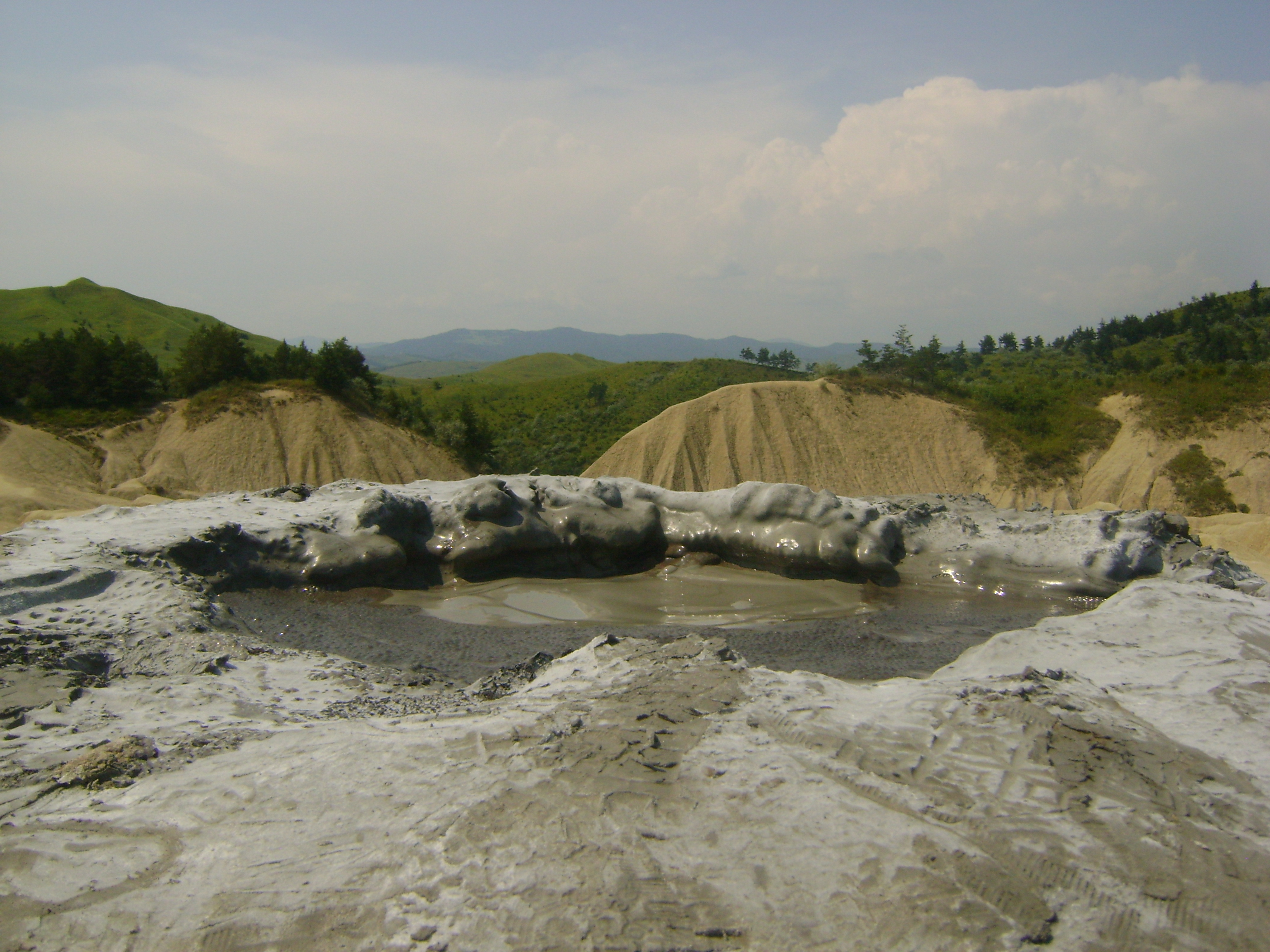 Mud Vulcanos in Berca Reservation, Buzau, România.